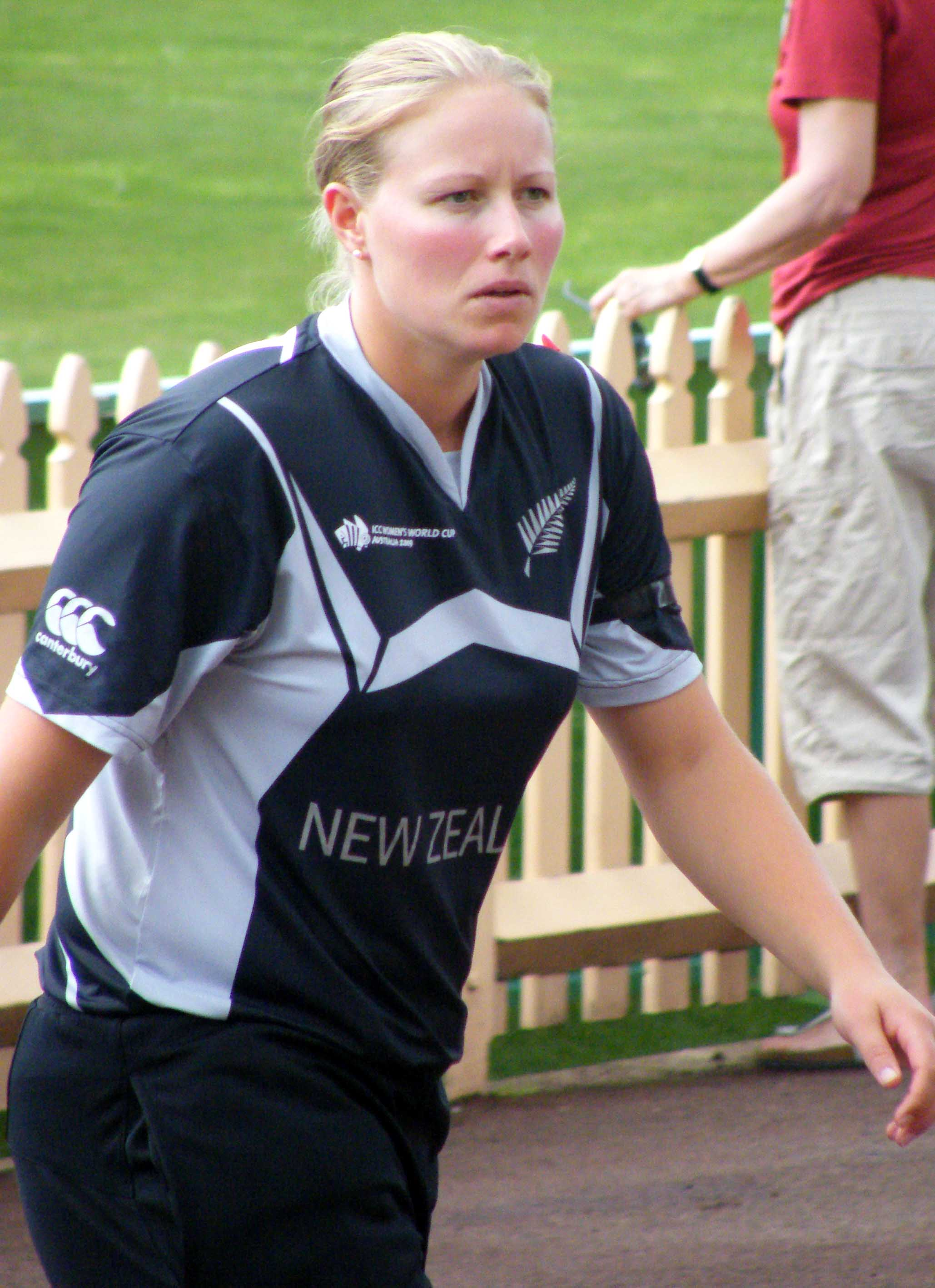 Aimee Mason of New Zealand - Womens Cricket World Cup - Sydney March 2009.